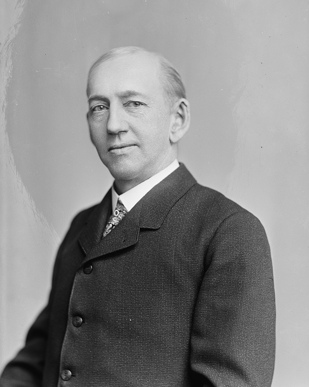 Charles Q. Tirrell photographed by CM Bell Studio